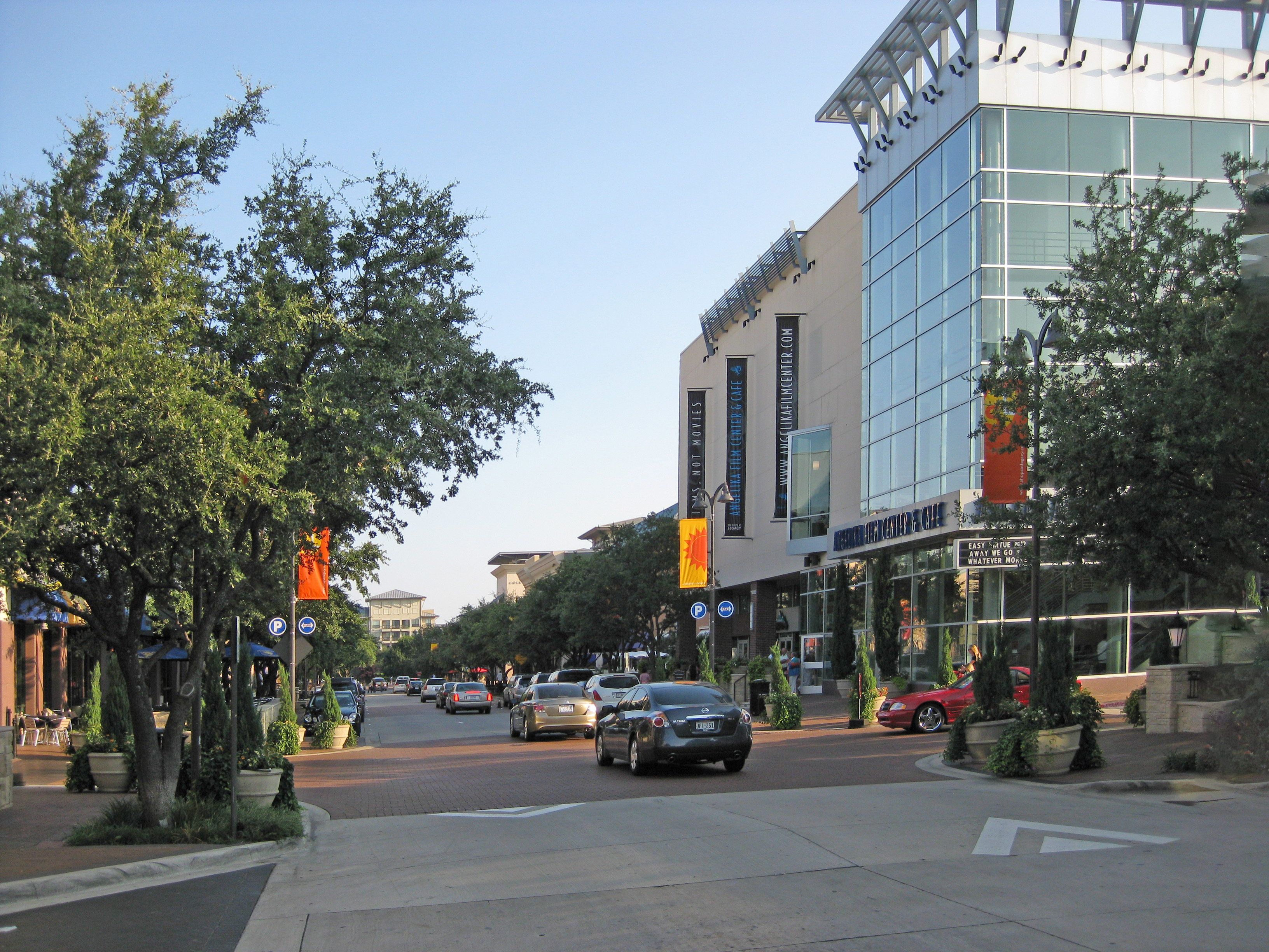 Legacy Town Center - Plano, TX